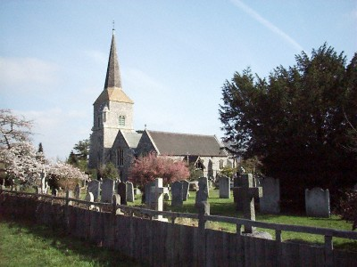 St. Nicholas' Church, Chiselhurst. Where I was christened!